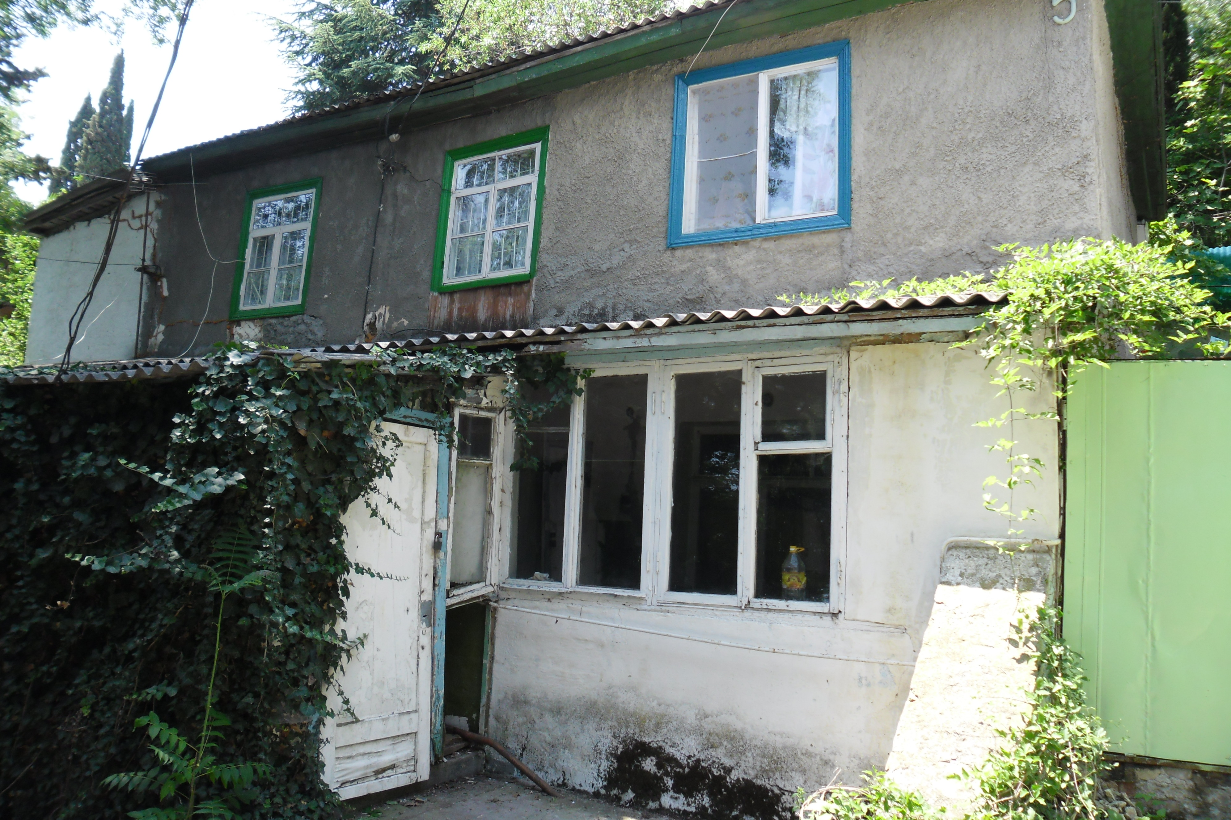 The village Bondarenkovo​​, Alushta city council, Crimea